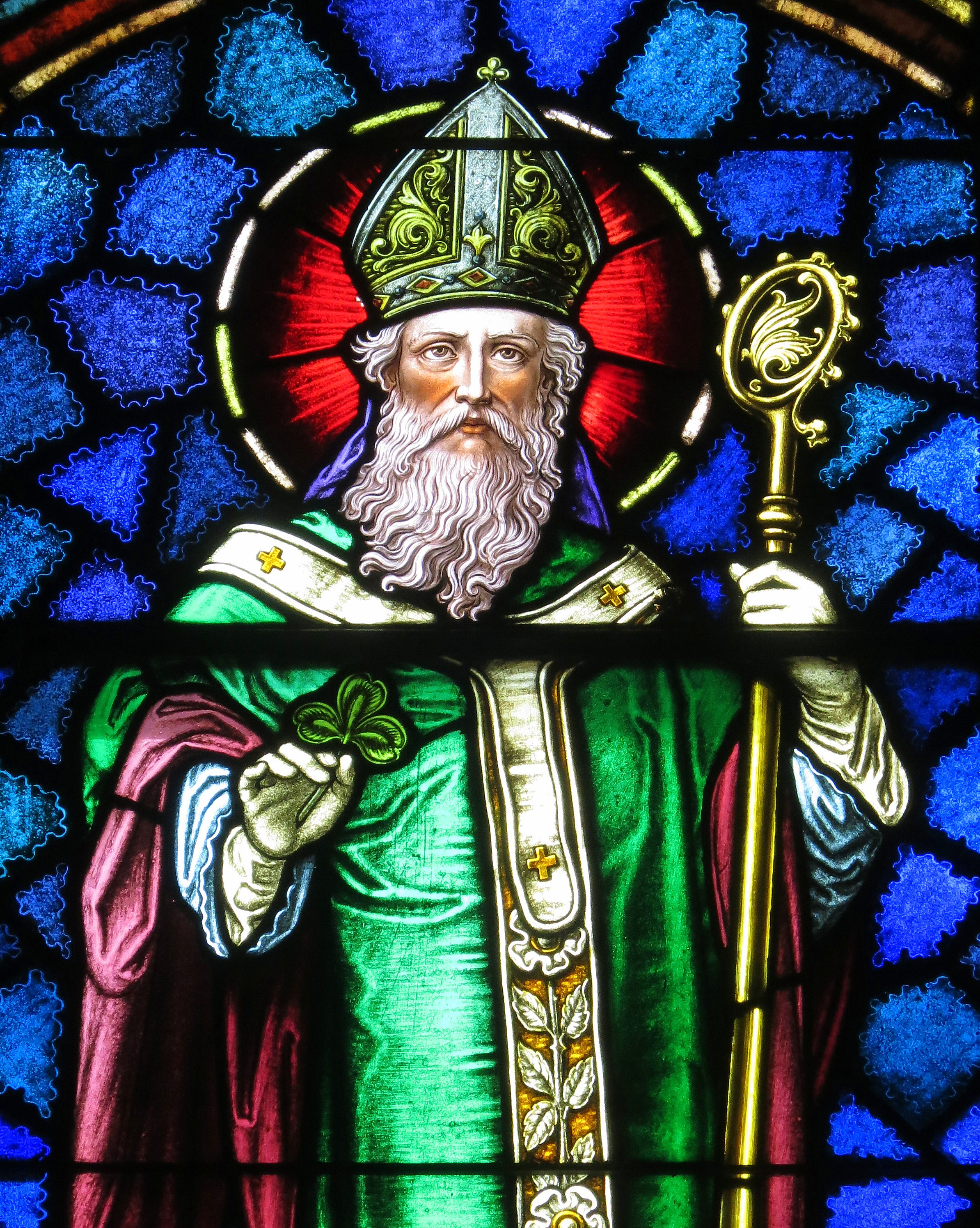 Saint Patrick Catholic Church (Junction City, Ohio) - stained glass, Saint Patrick - detail